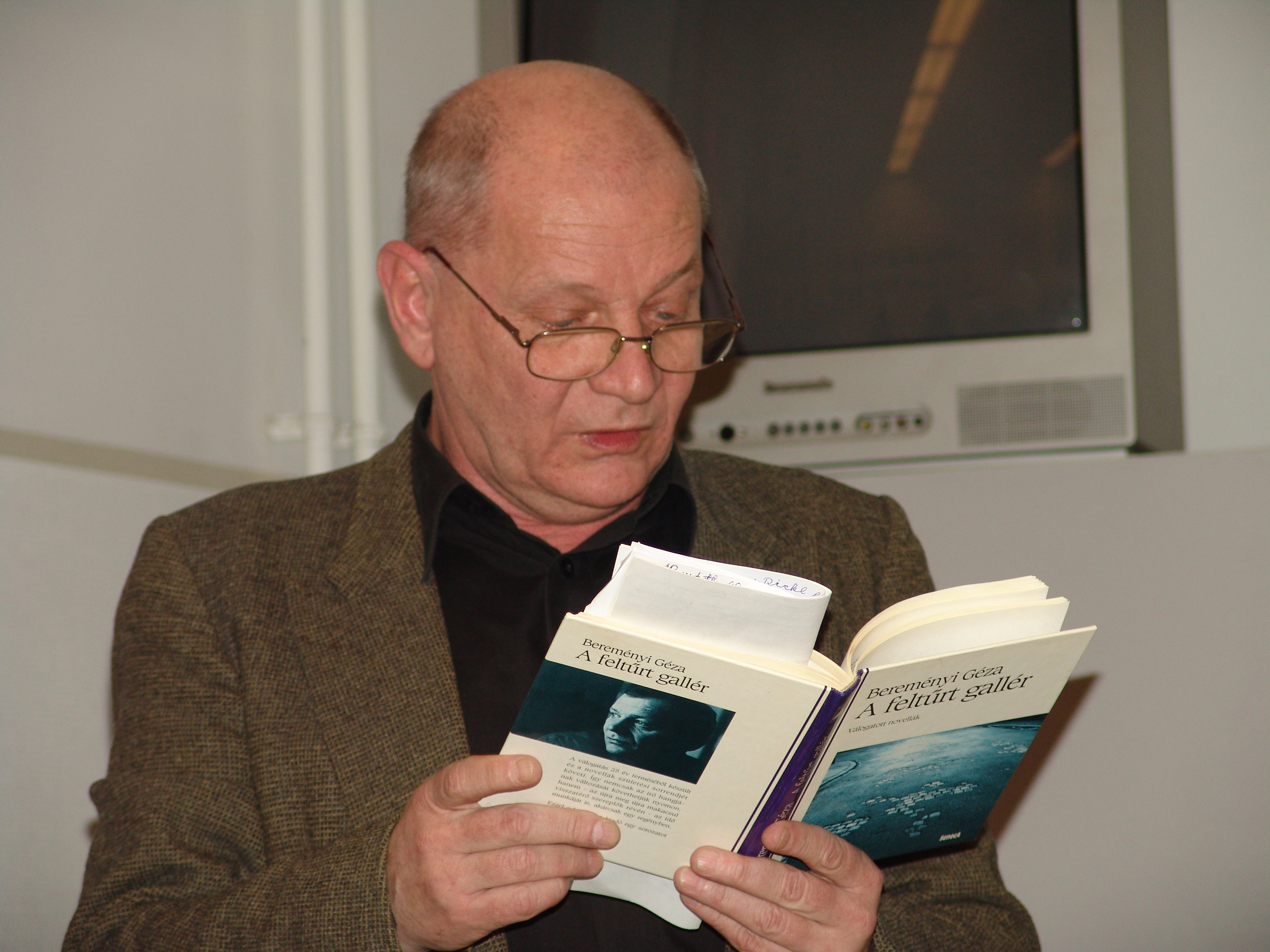 Bereményi Géza, a Hungarian film director, writer and lyricist.